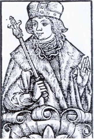 Władysław II the Exile of Poland